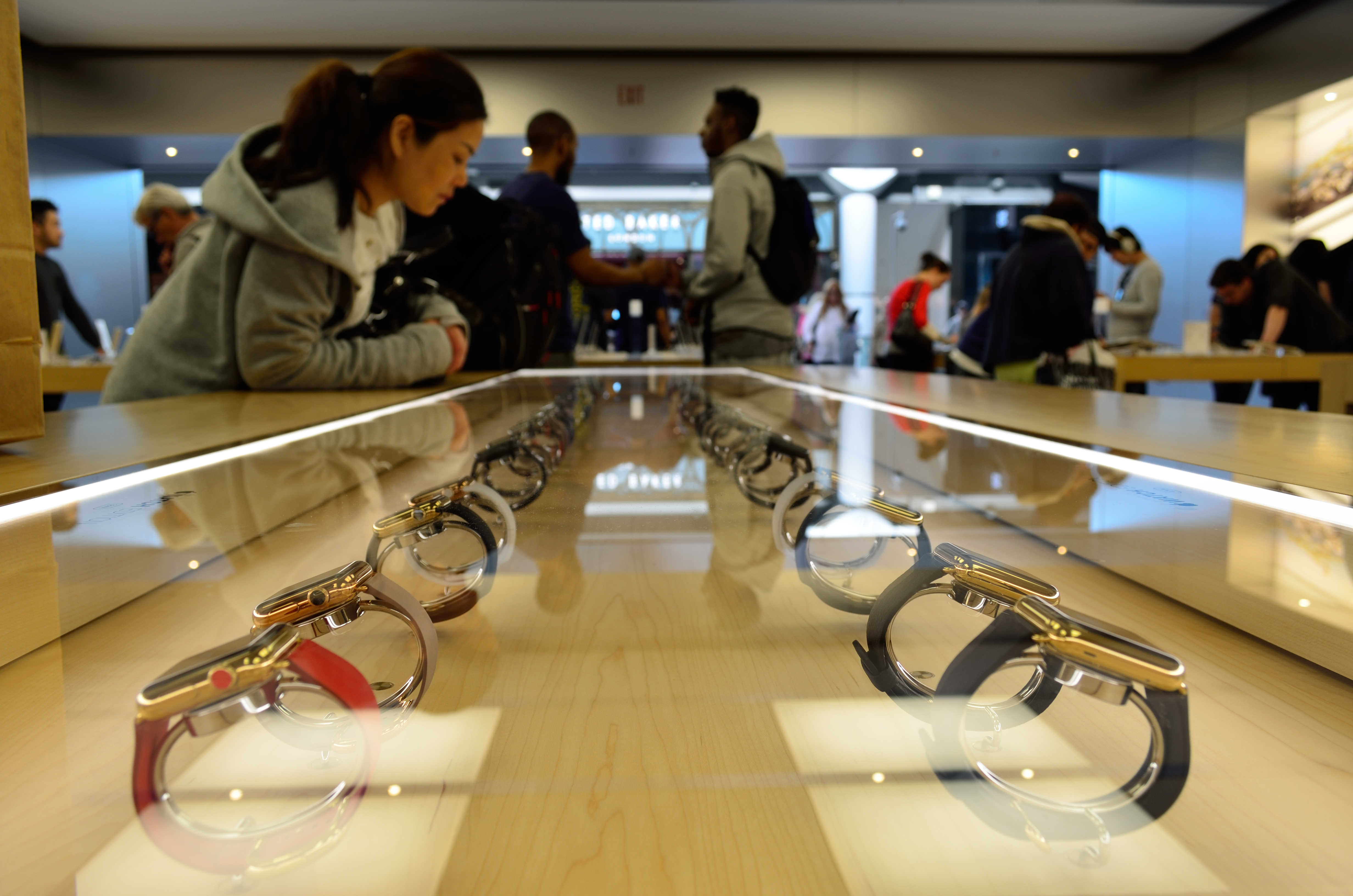 Apple Watch on display at an Apple Store